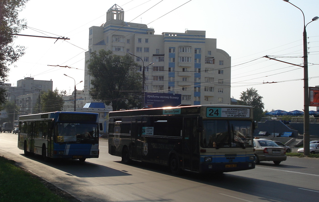 Prospekt Lenina in Vladimir, Russia. MAN bus.